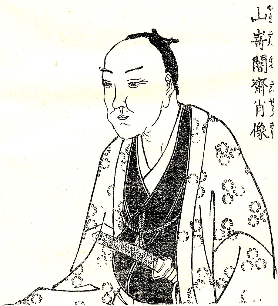 Yamazaki Ansai (山崎 闇斎) was a Japanese philosopher and scholar in early edo period.